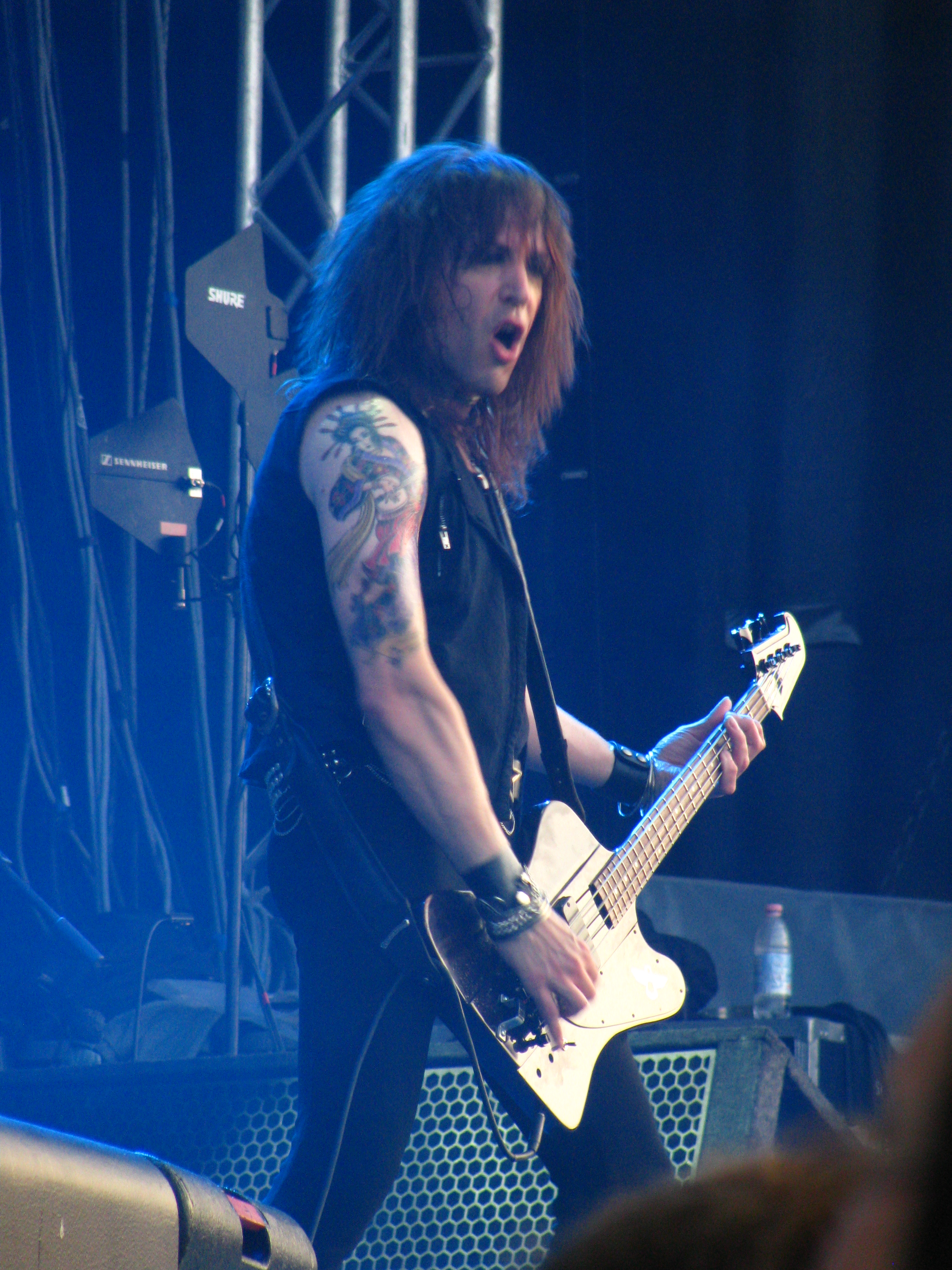 Bassist Randy Gregg of Lauren Harris Band performing live at Kaliakra Rock Fest in Bulgaria in 2009.